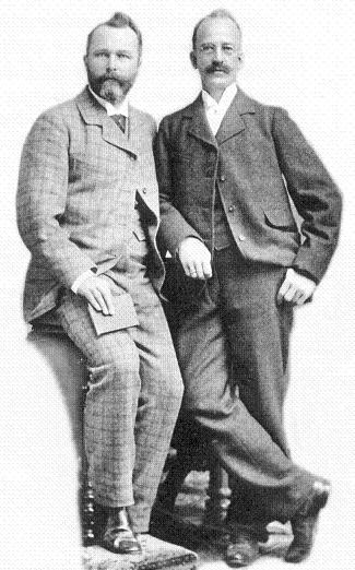 Architects and royal government building officers Max Contag (right) (* 4. June 1852 in Numeiten/Ostpreußen; † 15. June 1930 in Berlin) and Christian Havestadt (* 24. July 1852 in Emmerich; † 29. December 1908 in Berlin)